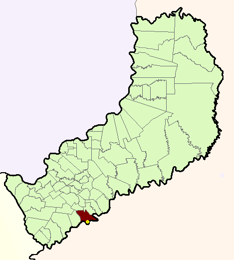 A map of San Javier's municipio in Misiones province, Argentina